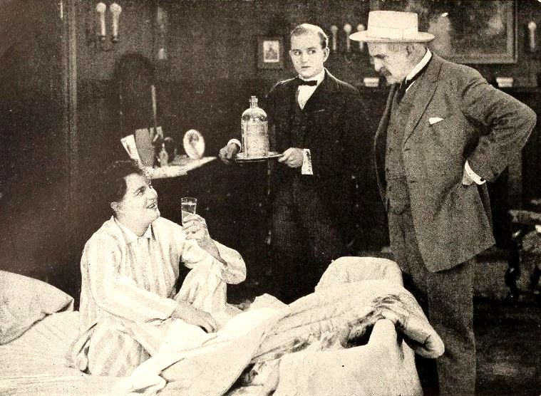 Still from the American silent film It Pays to Advertise (1919) with Bryant Washburn, Guy Oliver, and Frank Currier on page 60 of the December 1919 Shadowland.